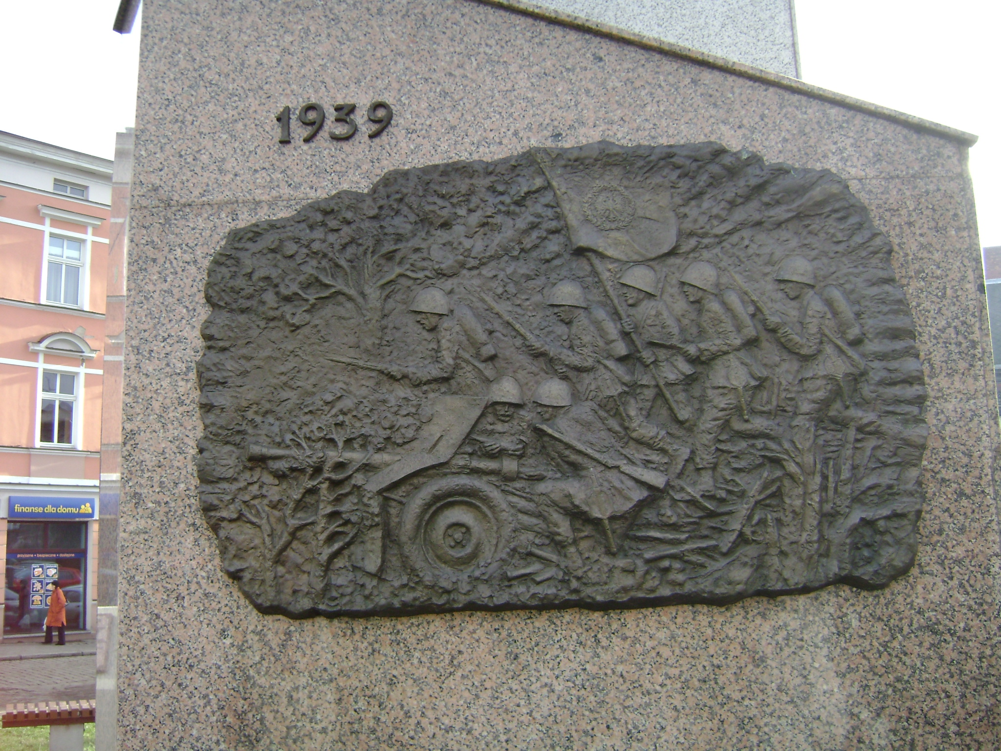 Defence of Poland in 1939 - plaque in Grudziądz